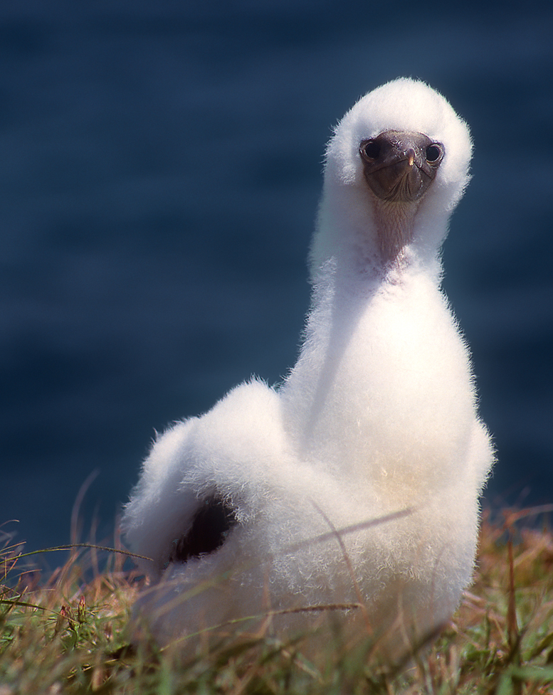 Masked Booby chick, Norfolk Island.